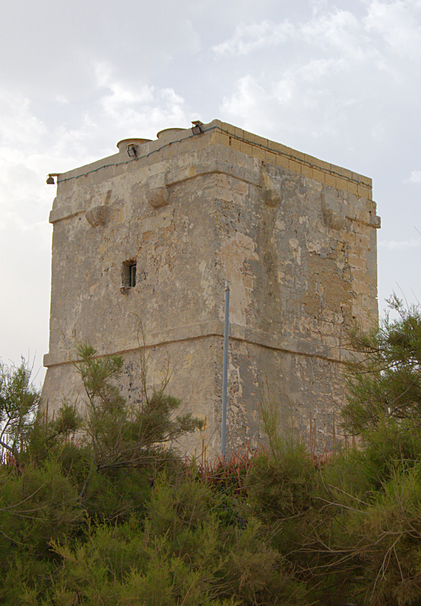 Qawra Tower in St. Paul's Bay Qawra.